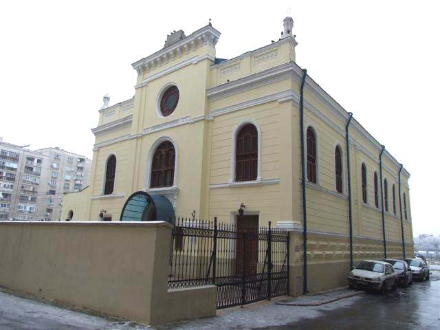 Great Synagogue in Bucharest